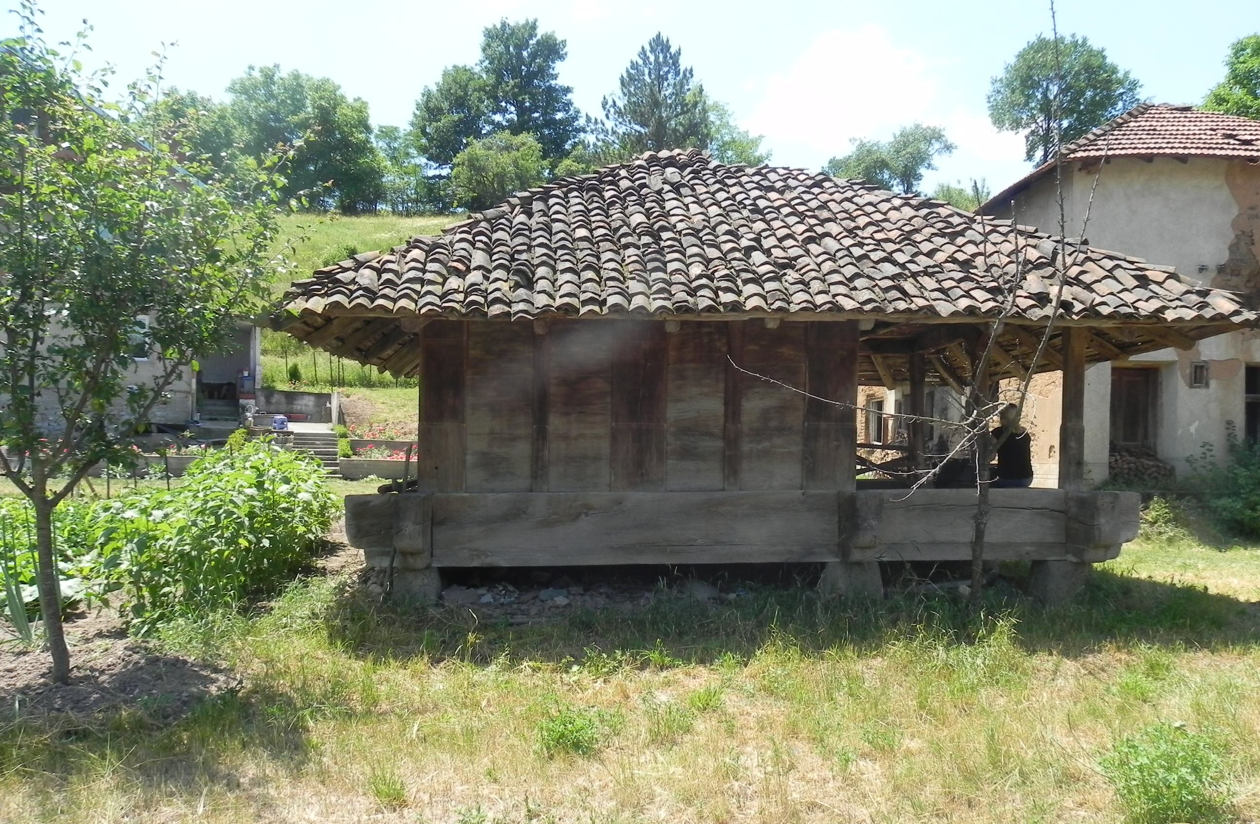 Hambari i Feriz Llashtices